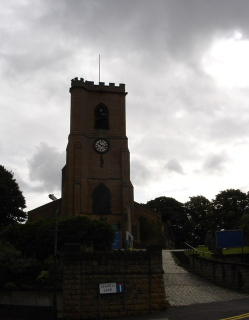 St Mary The Virgin and All Souls, Bulwell